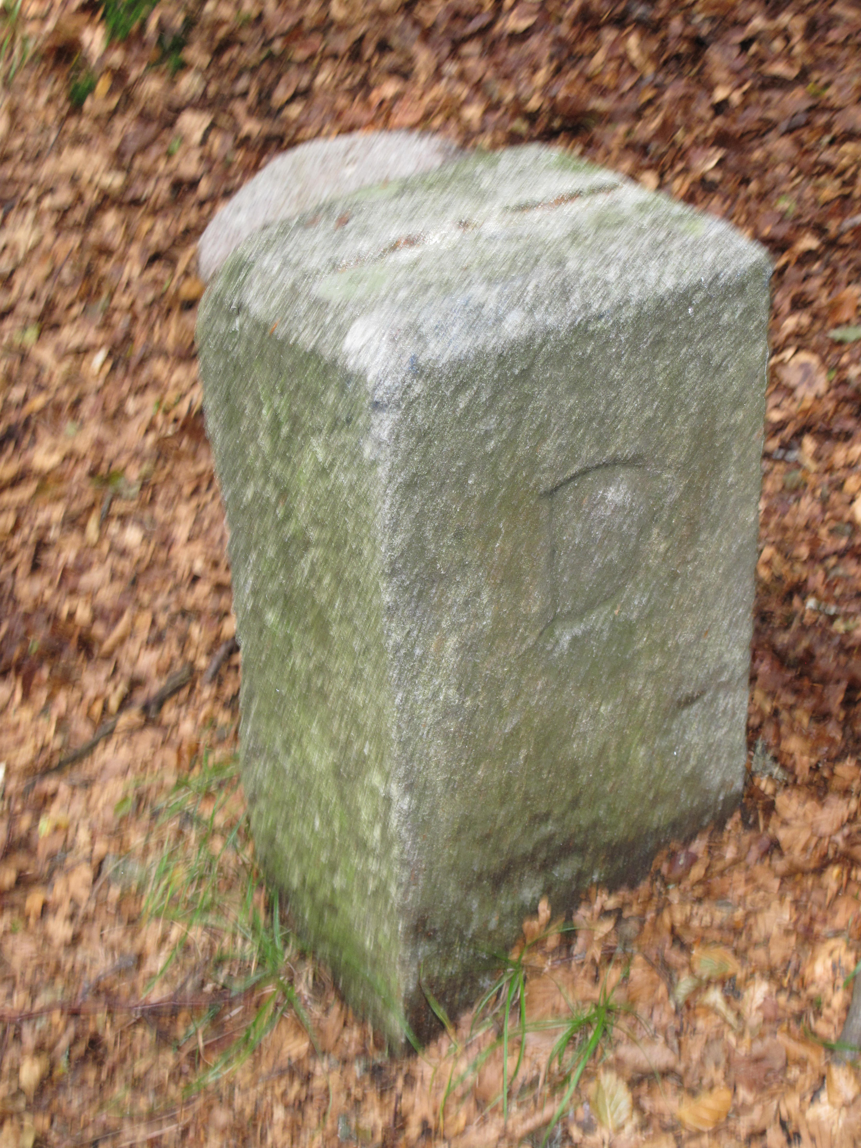 Stone indicating the former border between France and Germany during the German occupation of Alsace-Lorraine (1871-1918). Near Bussang (Vosges, France). The letter D is for Deutschland. At the top, an encarved line (formerly painted in red) shows the direction of the previous and of the following stones. There were 4,056 stones like this one, with a distance of 60 meters between each. This one is the number 3092.